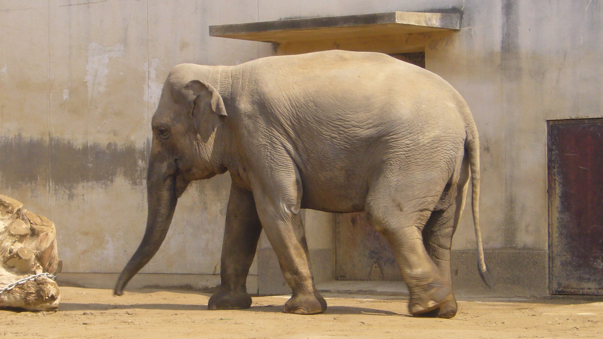 Indian Elephant Zuze in the Kobe Oji Zoo, Kobe, Japan